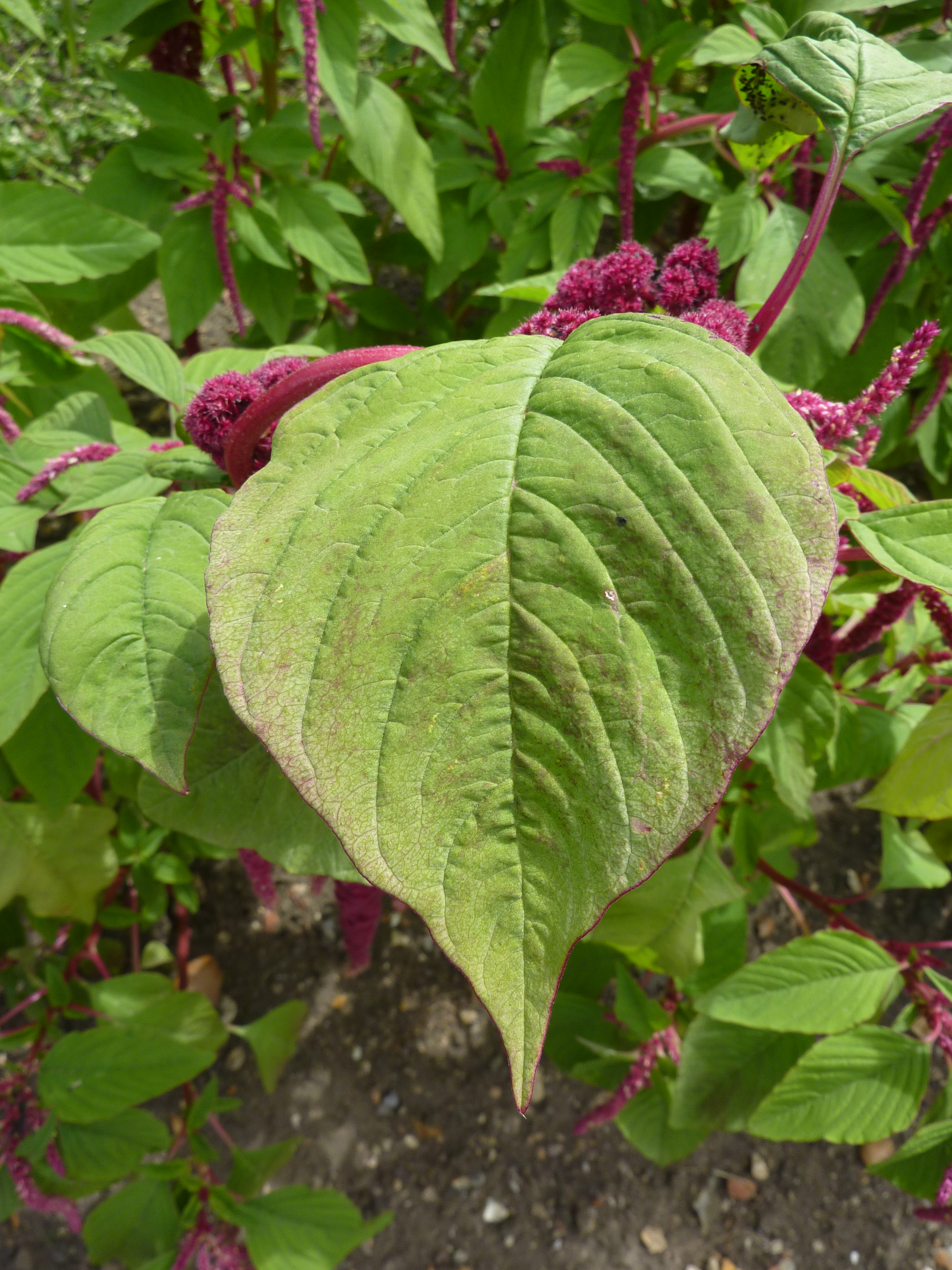 Taken in the Cambridge University Botanic Garden